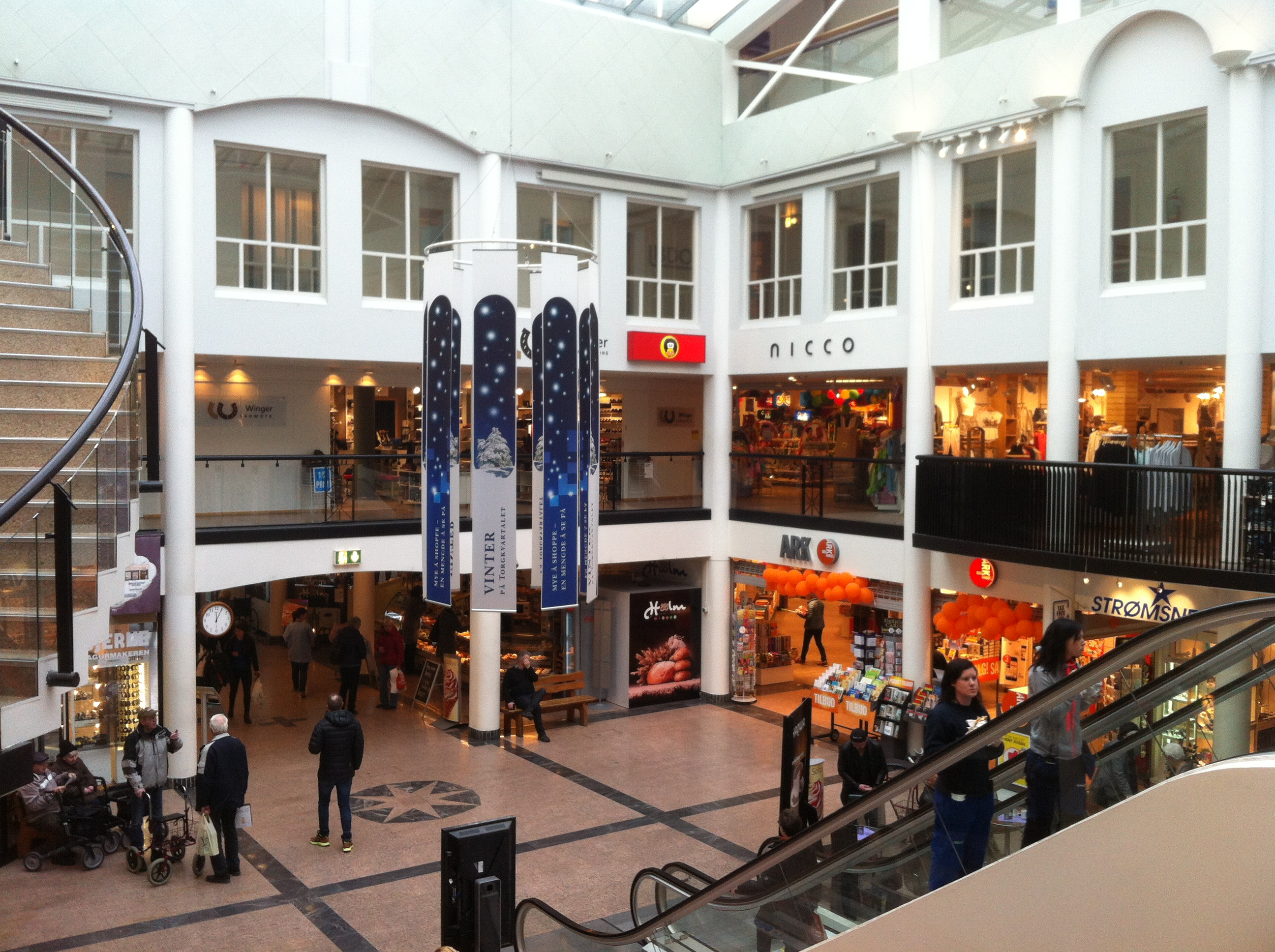 Inside the Mall in the City of Stjordal, Norway Feb 2014